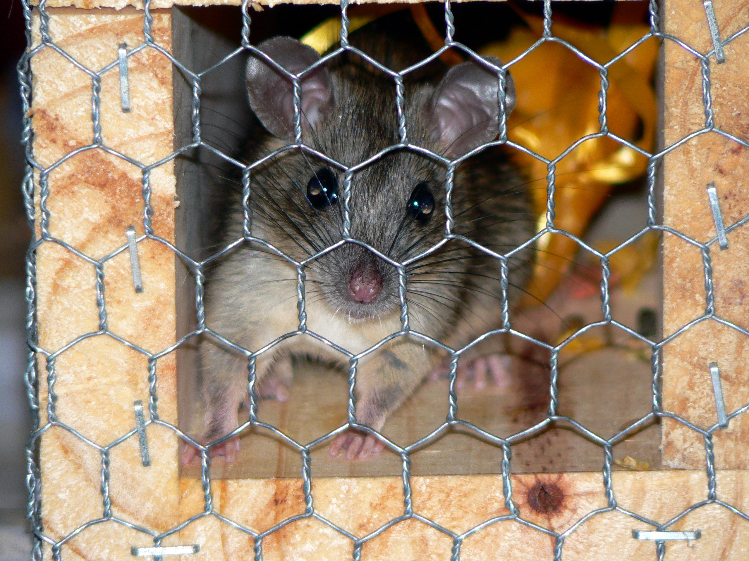 Micaelamys namaquensis